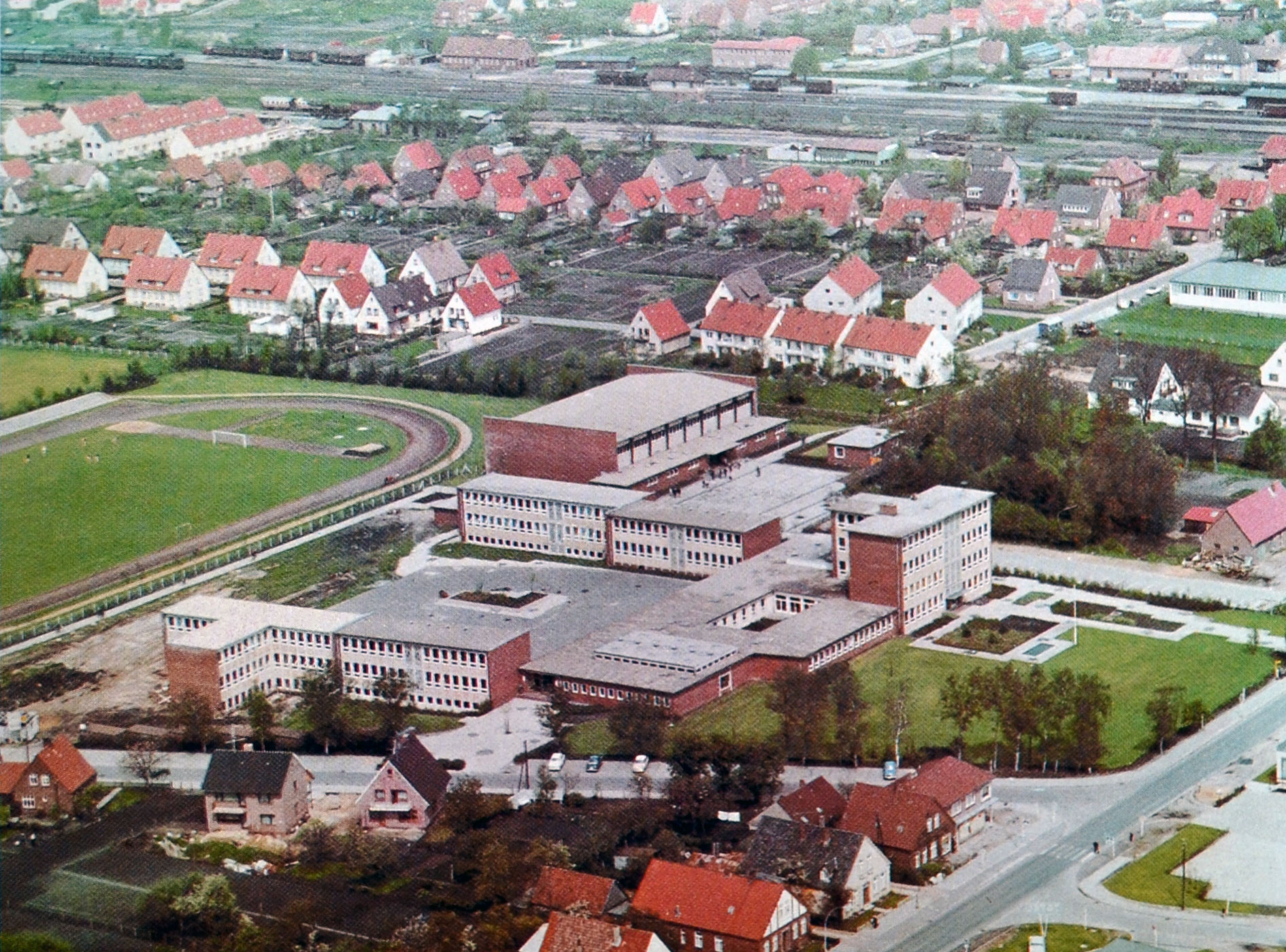 This picture shows an aerial view of Findorff-Realschule Bremervörde from the year 1966th.